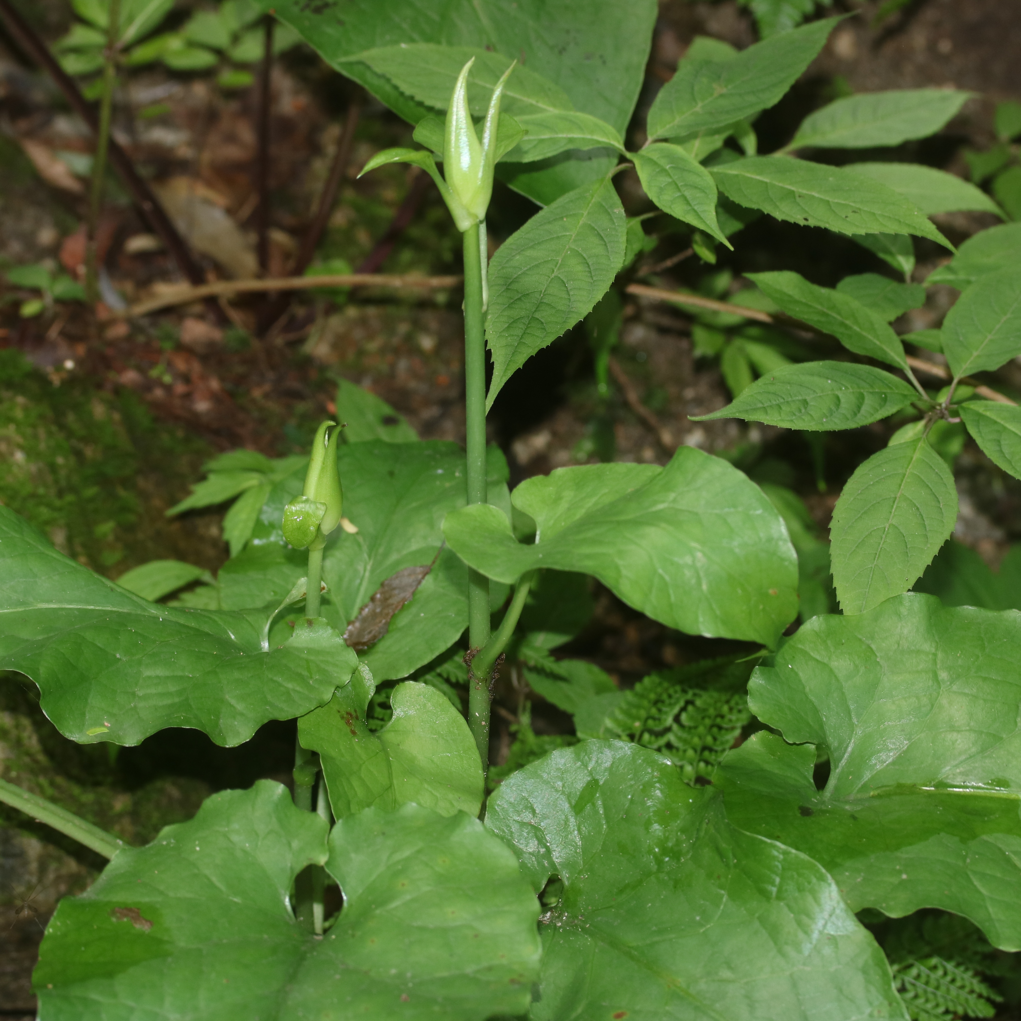 Bud of Cardiocrinum cordatum in Mount Byobu, Mizunami, Gifu Prefecture, Japan.